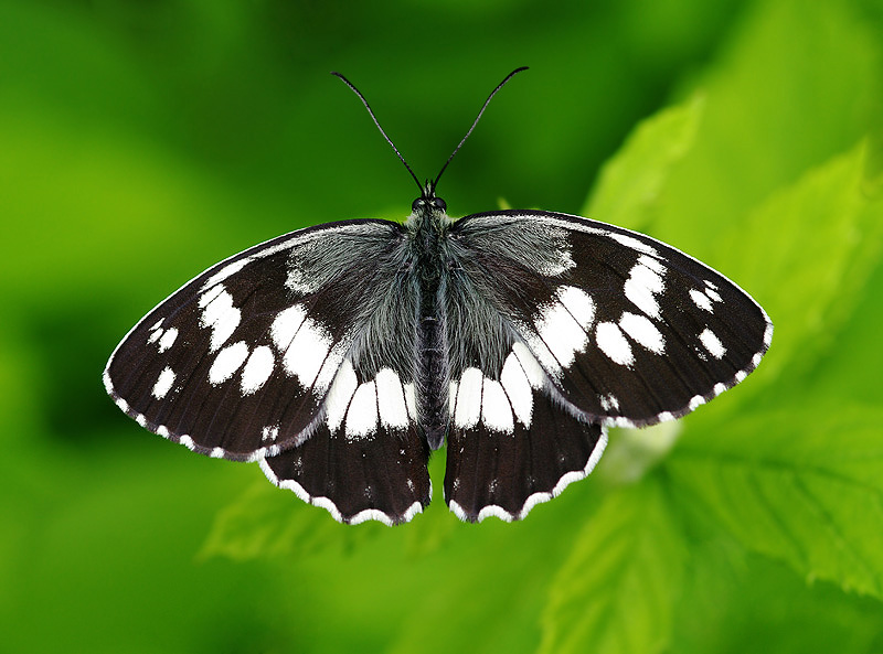 Wing upperside view of a Syrian Marbled White (Melanargia syriaca). Osmaniye,Turkey. 1600 mTürkçe: Kara Melike kelebeği (Melanargia syriaca) kanat üstü görünümü. Osmaniye, Türkiye. 1600 m.